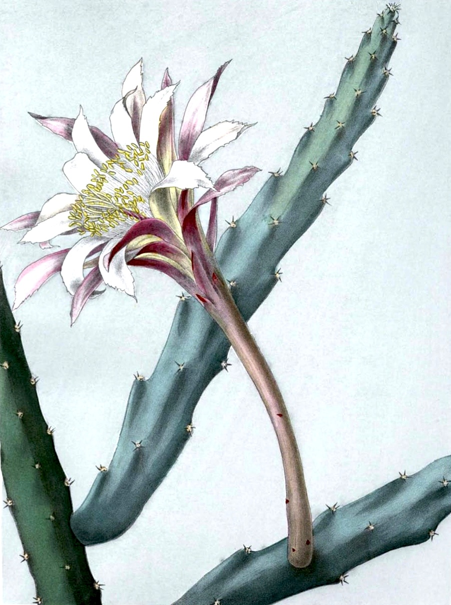 Cereus spegazzinii